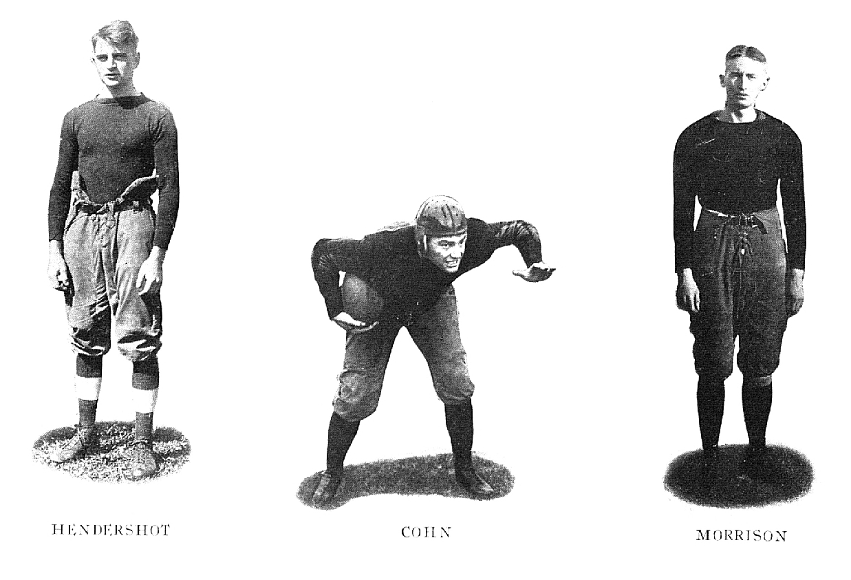 Photograph of 1918 Michigan football players Hendershoot, Cohn and Morrison